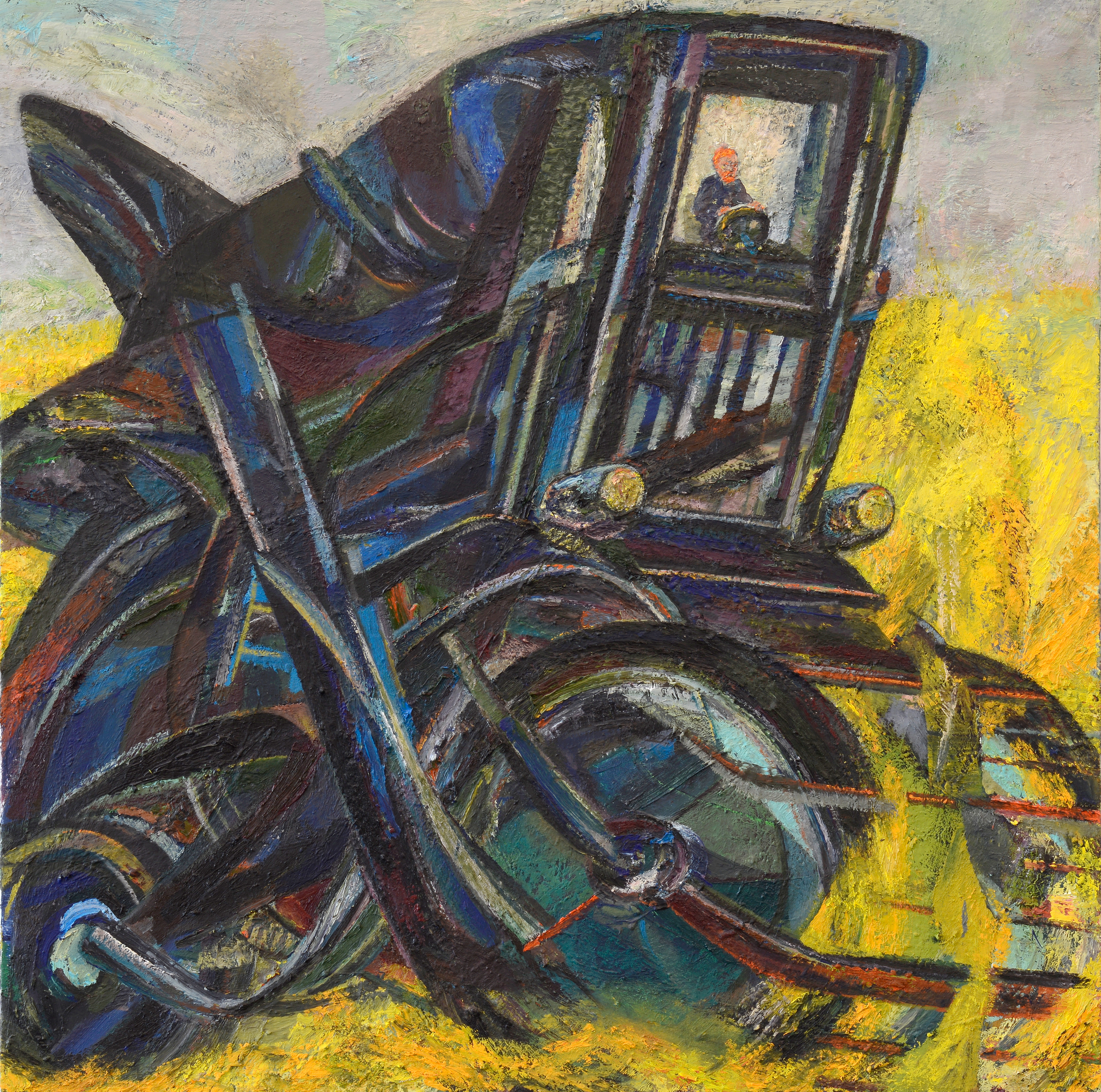 Harvest 1